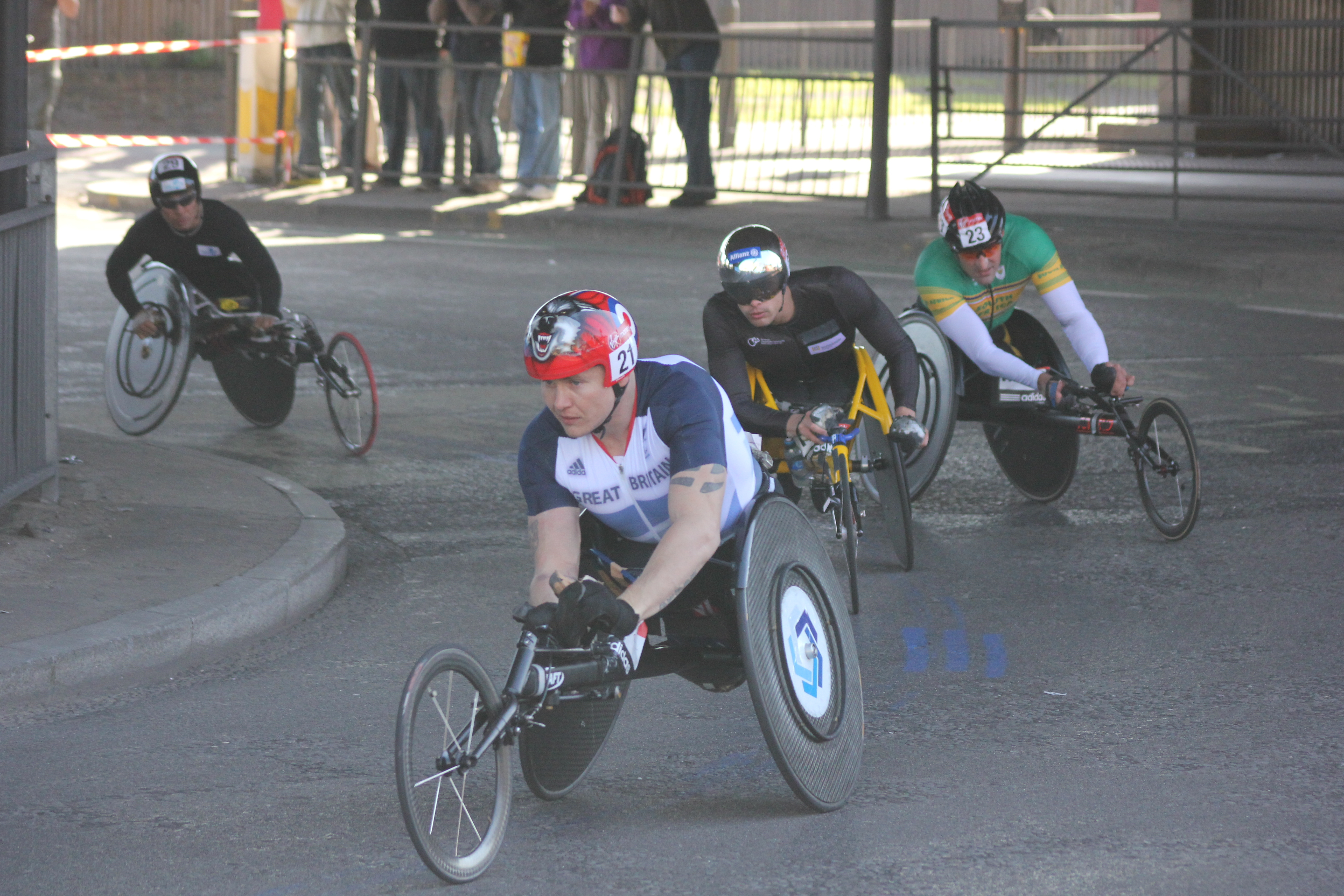 London Marathon 2013 - at Woolwich Road flyover, East Greenwich, London SE10. In front is Britain's David Weir, behind in black and trademark silver helmet is Switzerland's Marcel Hug.